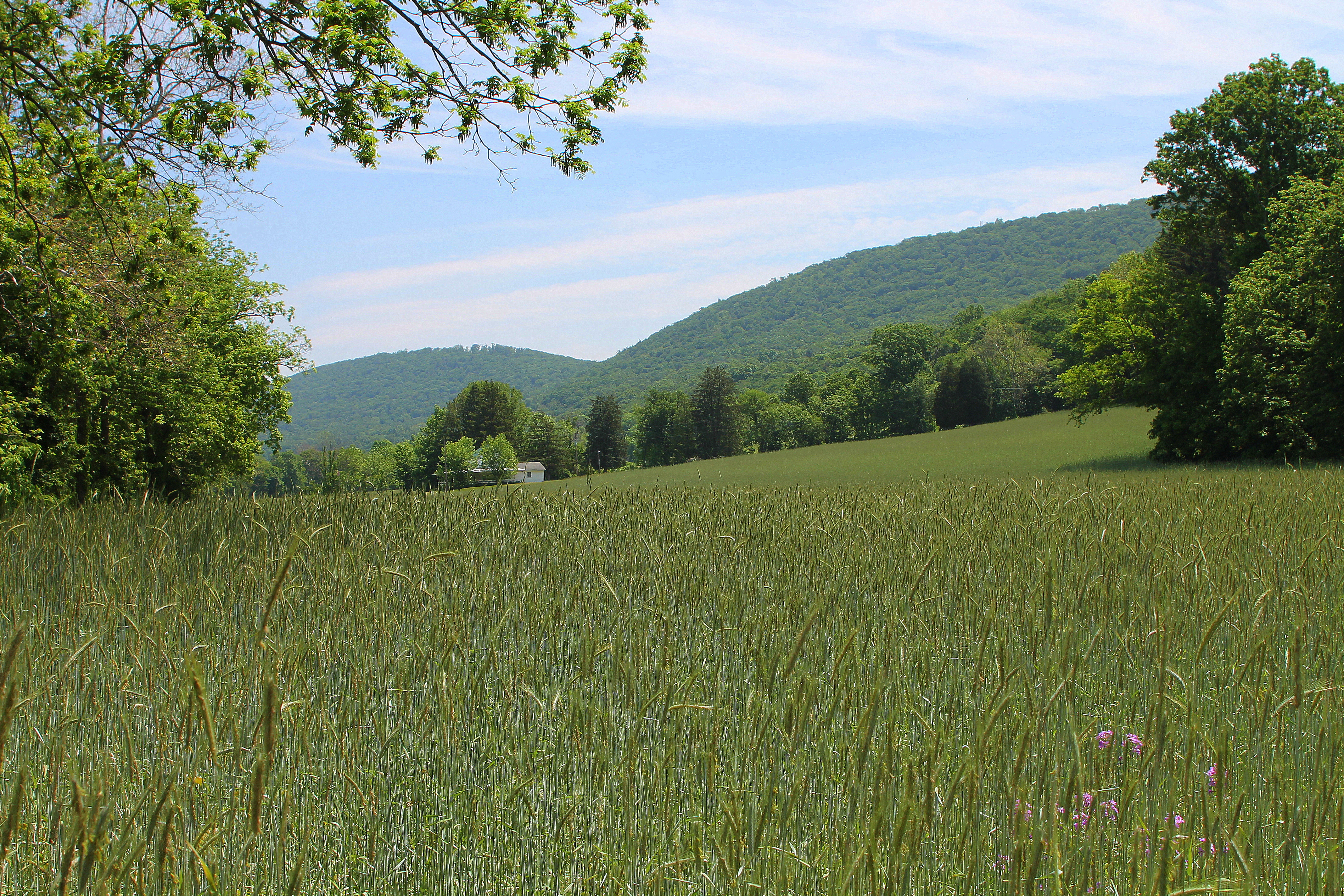 Fields and mountains in Upper Paxton Township, Dauphin County, Pennsylvania